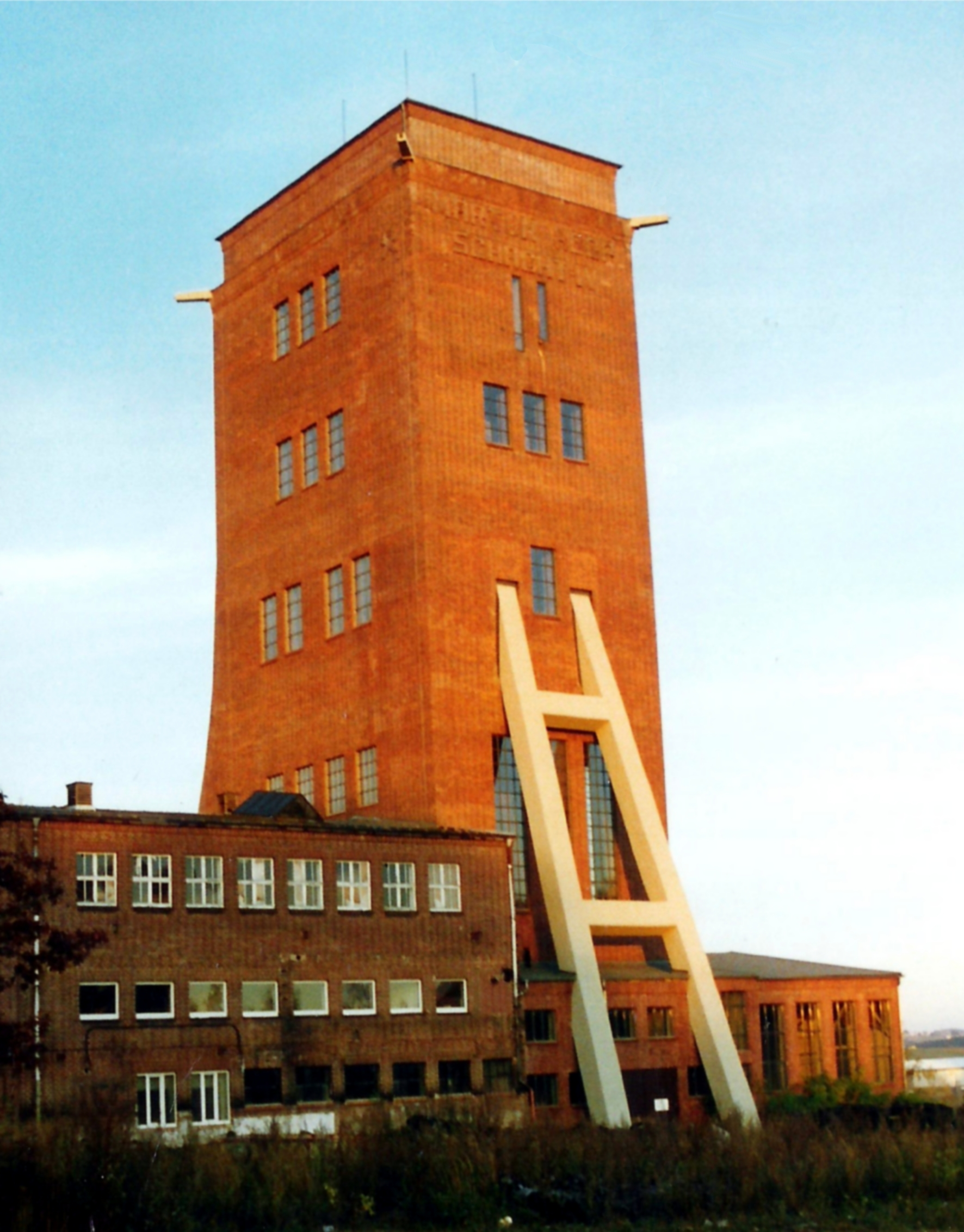 Winding Tower of shaft Martin Hoop IV near Zwickau, Germany